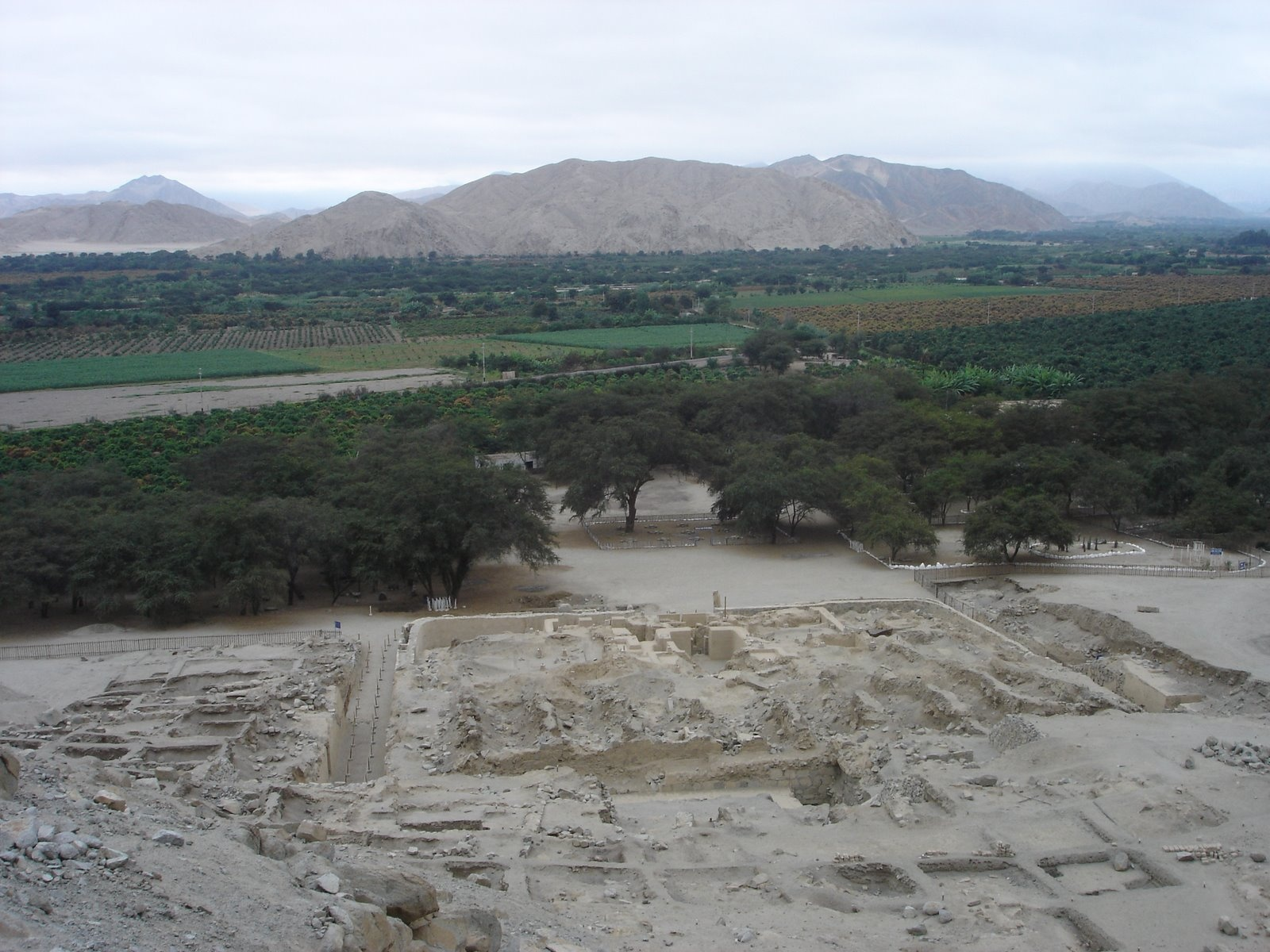 The Sechín archeological site and the valley of Casma